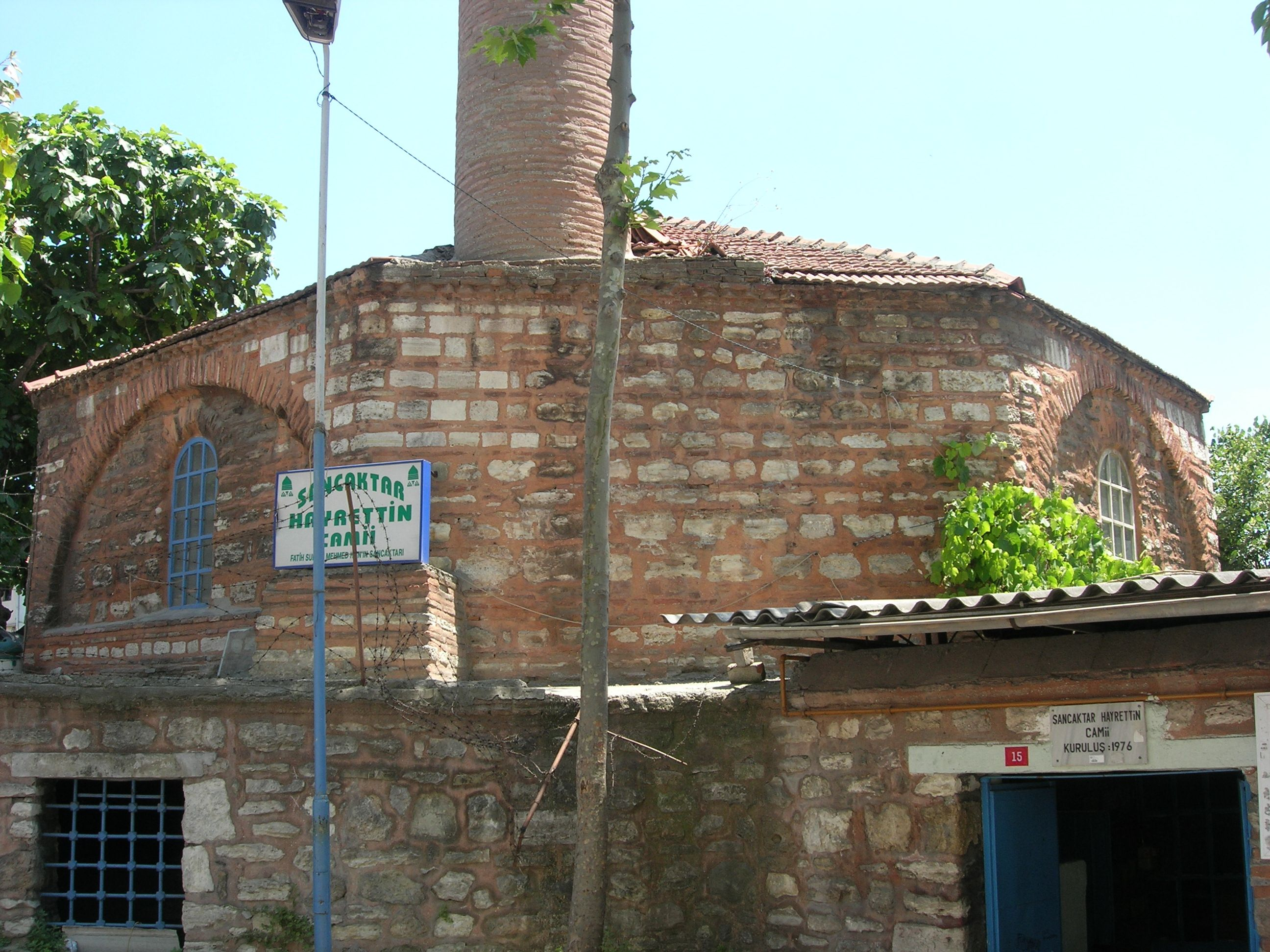 The former Mausoleum of the monastery of Gastria( today mosque of Sancaktar Hayrettin) in Istanbul viewed from N